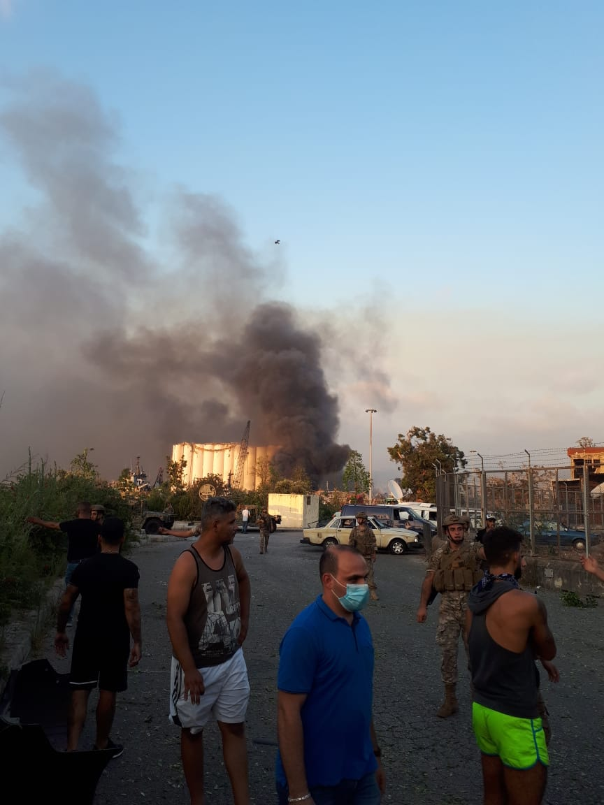 Explosiión in the port of Beirut